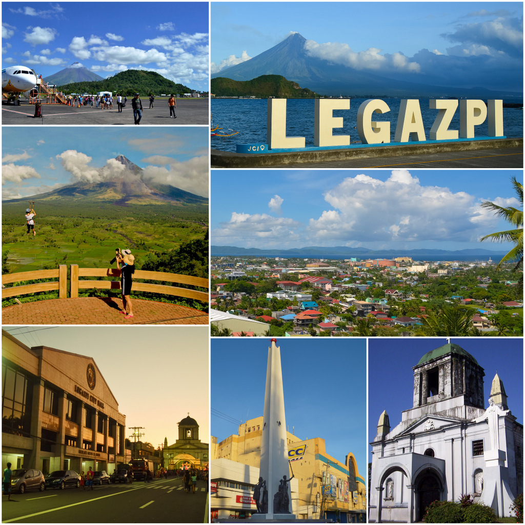 Photo montage of Legazpi City Clockwise from top right: JCI Legazpi Tourism Marker, View from The Oriental Legazpi, Cathedral of St. Gregory the Great, Battle of Legazpi Monument, Legazpi City Hall, Zip-line at Ligñon Hill, Legazpi Domestic Airport